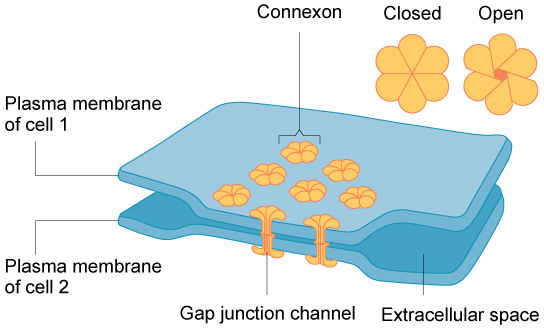 Name: Biology ID: Language: English Summary: Biology is designed for multi-semester biology courses for science majors. It is grounded on an evolutionary basis and includes exciting features that highlight careers in the biological sciences and everyday applications of the concepts at hand. To meet the needs of today’s instructors and students, some content has been strategically condensed while maintaining the overall scope and coverage of traditional texts for this course. Instructors can customize the book, adapting it to the approach that works best in their classroom. Biology also includes an innovative art program that incorporates critical thinking and clicker questions to help students understand—and apply—key concepts. Subjects: Science and Technology Keywords: cells,DNA,gene,expressio,nphylogeny,conservation,biodiversity,biology,chemistry,evolution,proteins,bacteria,fungi,cell,membranes,inheritance,physiology,ecology,genetics,biotechnology,biosphere,photosynthesis,biological,molecules,cell structure,metabolismc,ellular respiration,genes,cell communication,cell reproduction,meiosis,sexual reproduction,genomics,study of life,cell function,animal diversity,animal reproduction,plant nutrition,soilseedless plantsplant physiologyplant reproductionanimal bodycirculatory systemdigestive systemendocrine systemnervous systemrespiratory systemorigin of speciesecosystemsarchaeasensory systemosmotic regulationimmune systemvertebratesviruspopulation ecologymusculoskeletal systembehavioral biologyanimal biologyanimal physiologybiology for majorscollege biologyeukaryotesinvertebratesmacromoleculesplant biologypopulation evolutionprokaryotesprotistsseed plants Print Style: CCAP Biology License: Creative Commons Attribution License (by 4.0) Authors: OpenStax Copyright Holders: Rice University Publishers: OpenStax OpenStax Biology Latest Version: 10.53 First Publication Date: Aug 22, 2012 Latest Revision: May 27, 2016 Last Edited By: OpenStax Biology